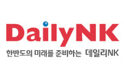 Daily NK logo